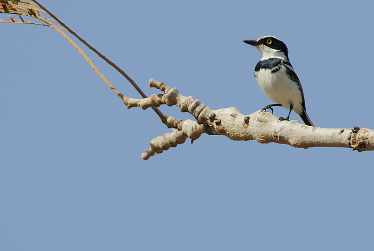 This male bird was responding to the imitated call of a Pearl-spotted Owlet. He became so irate he began to stamp his feet! Image taken at Brufut, The Gambia.